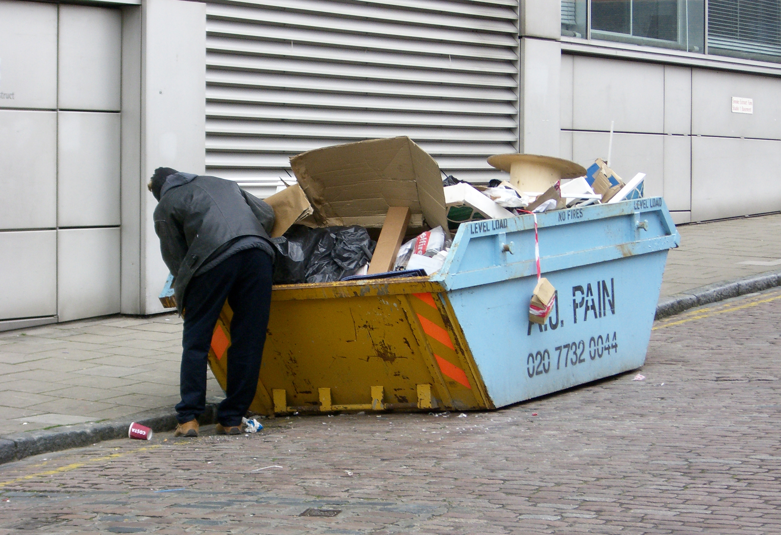 A man rummaging through a skip at the back of an office building in Central London. See also: Dumpster diving.